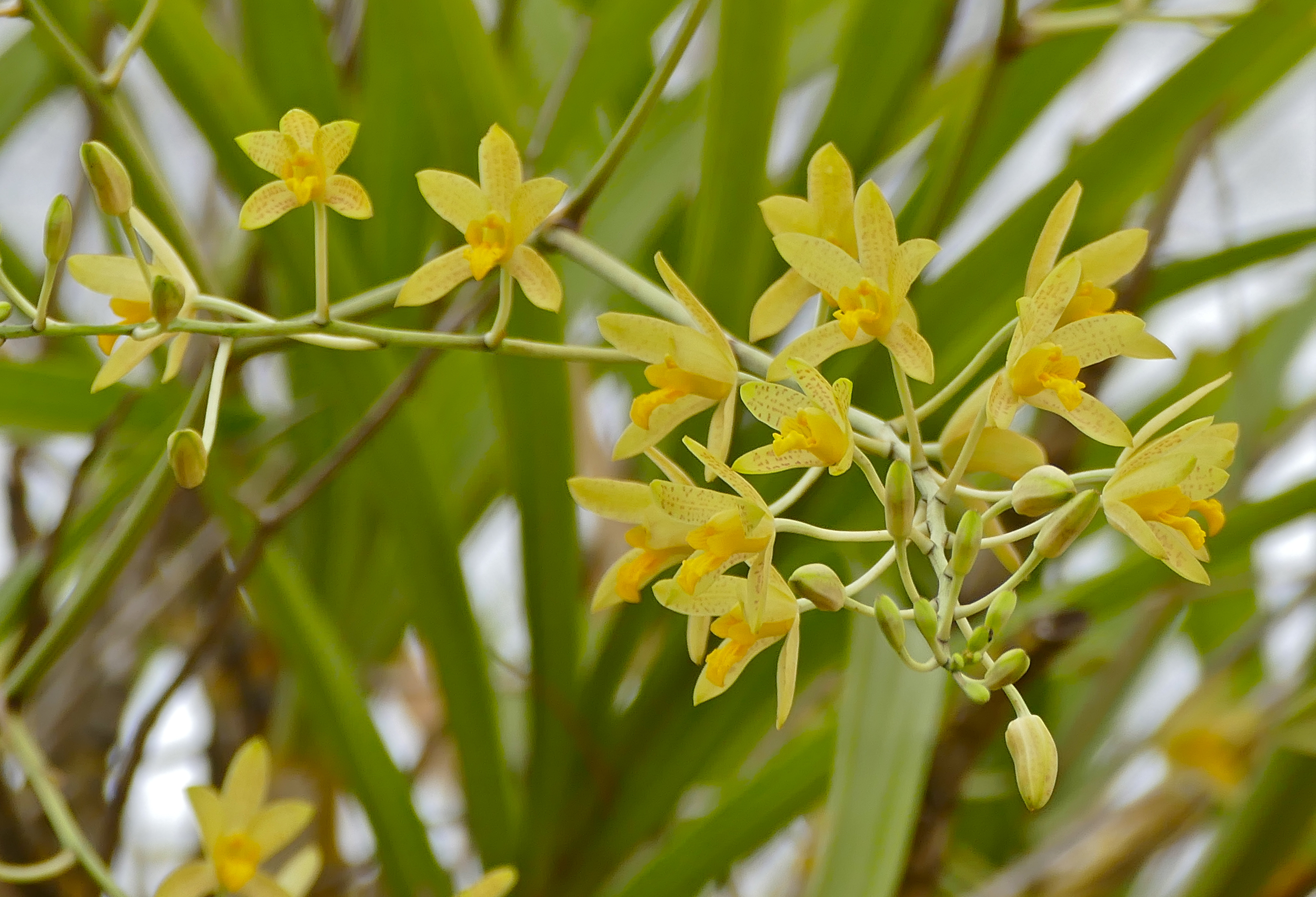 Ndumo Main Camp, Ndumo Game Reserve, Maputoland, KwaZulu-Natal, SOUTH AFRICA